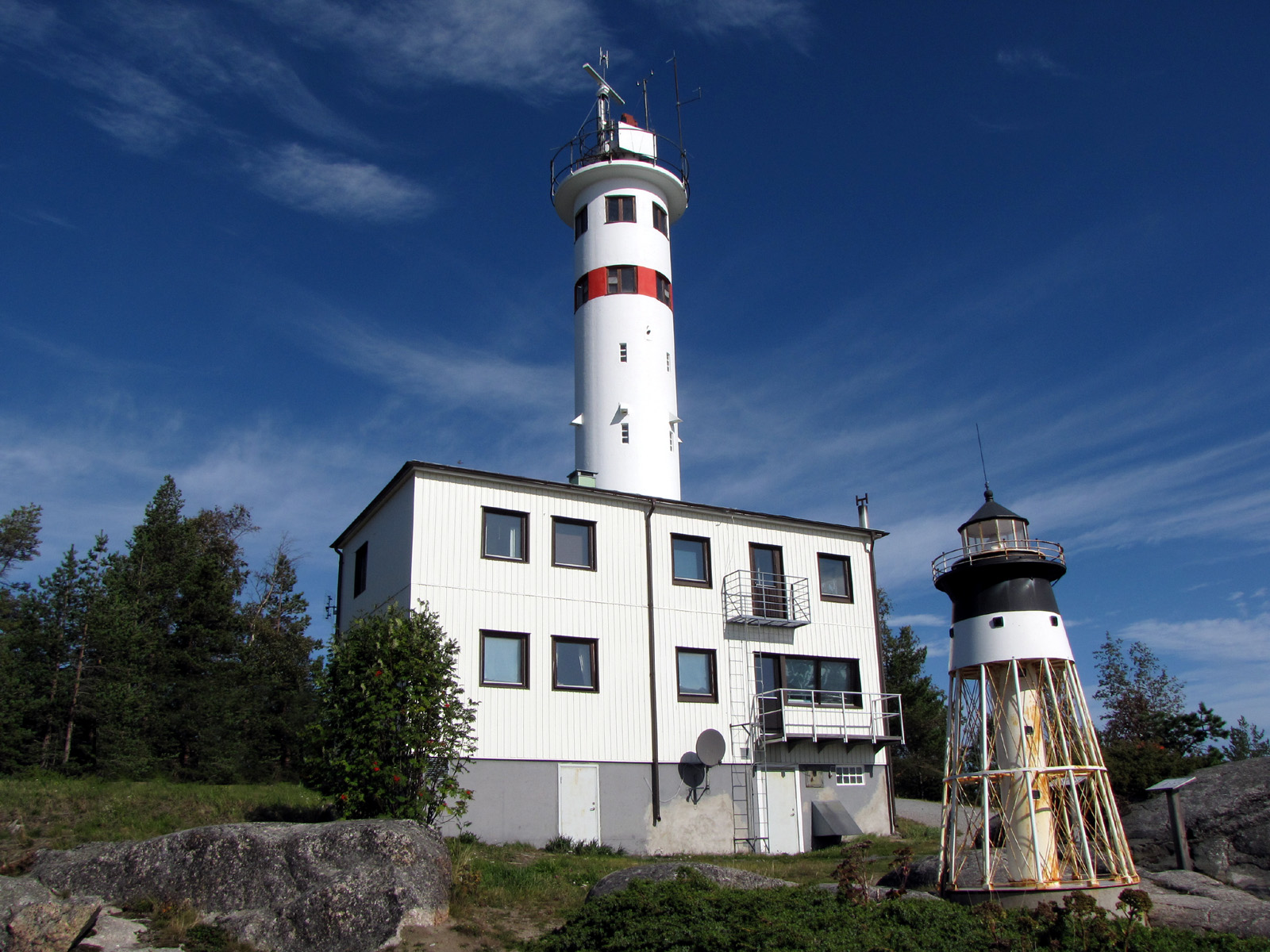 Lighthouse at Skagsudde outside of Örnsköldsvik, Sweden. The small lighthouse in the foreground is a scaled-down replica of the replaced lighthouse at Gråklubben 1.5 km to NE.